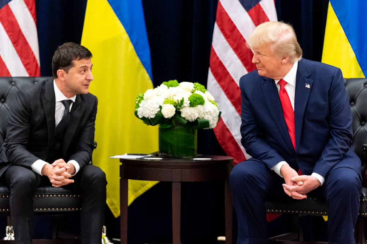 President Donald J. Trump participates in a bilateral meeting with Ukraine President Volodymyr Zalensky Wednesday, Sept. 25, 2019, at the InterContinental New York Barclay in New York City. (Official White House Photo by Shealah Craighead)